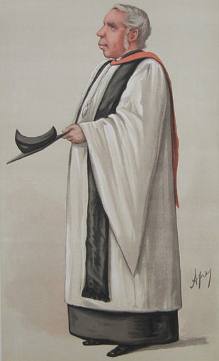 Caricature of Reverend Robinson Duckworth DD, CVO, VD. Caption read "A Court parson".